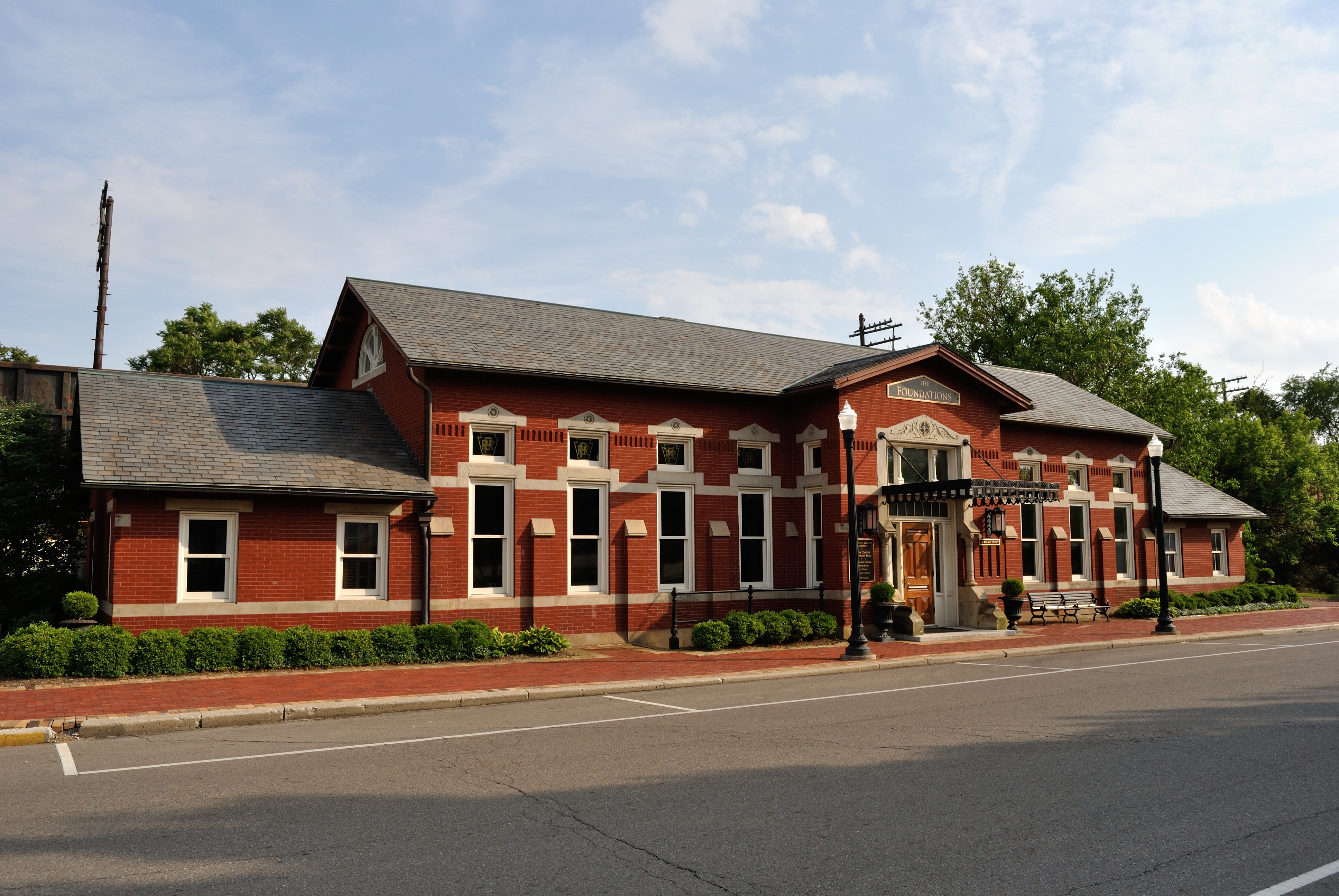 Located in Newark, Ohio and listed on the NRHP